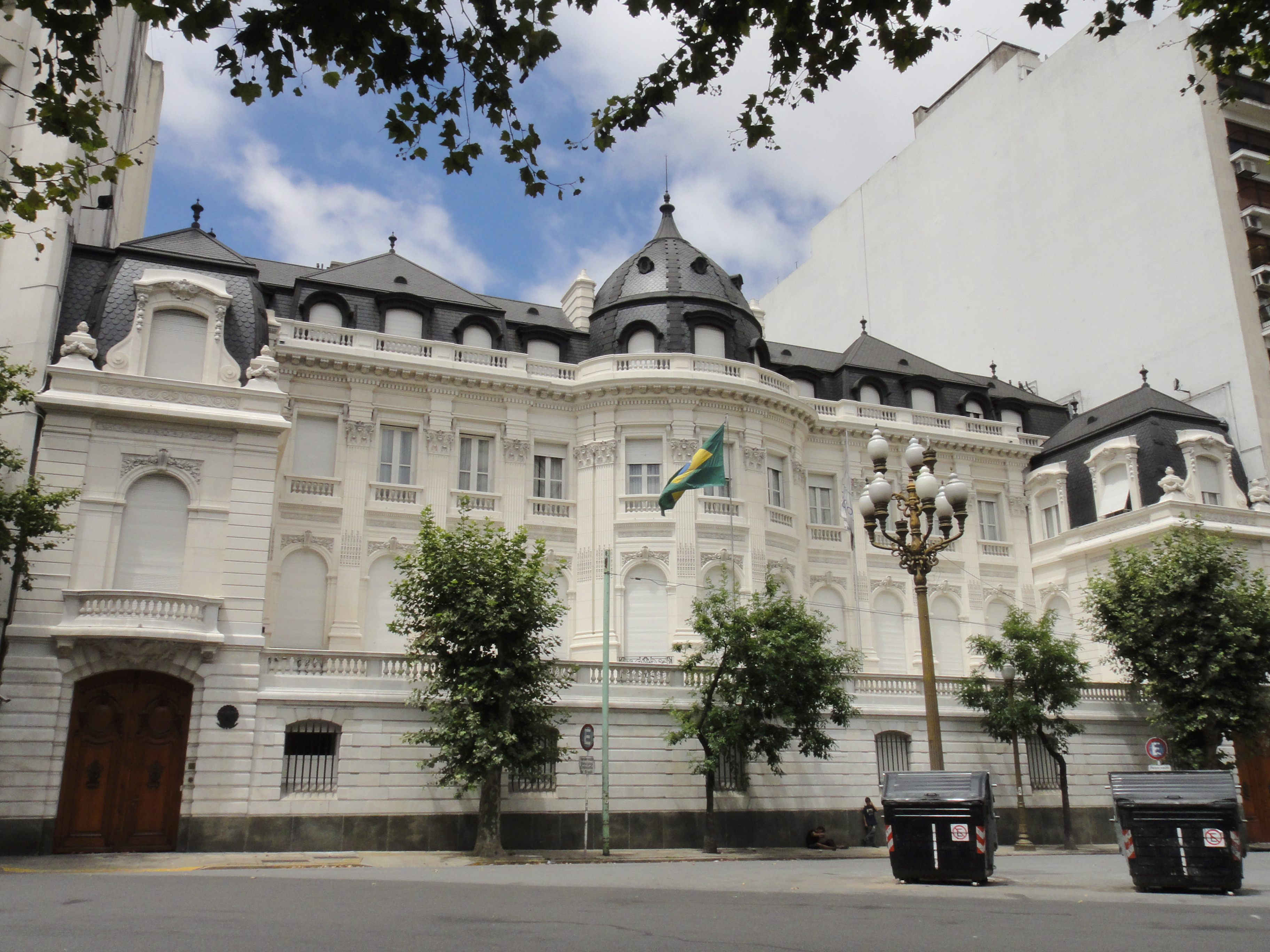 Pereda Palace, seat of the Brazilian Embassy in Buenos Aires, Argentina